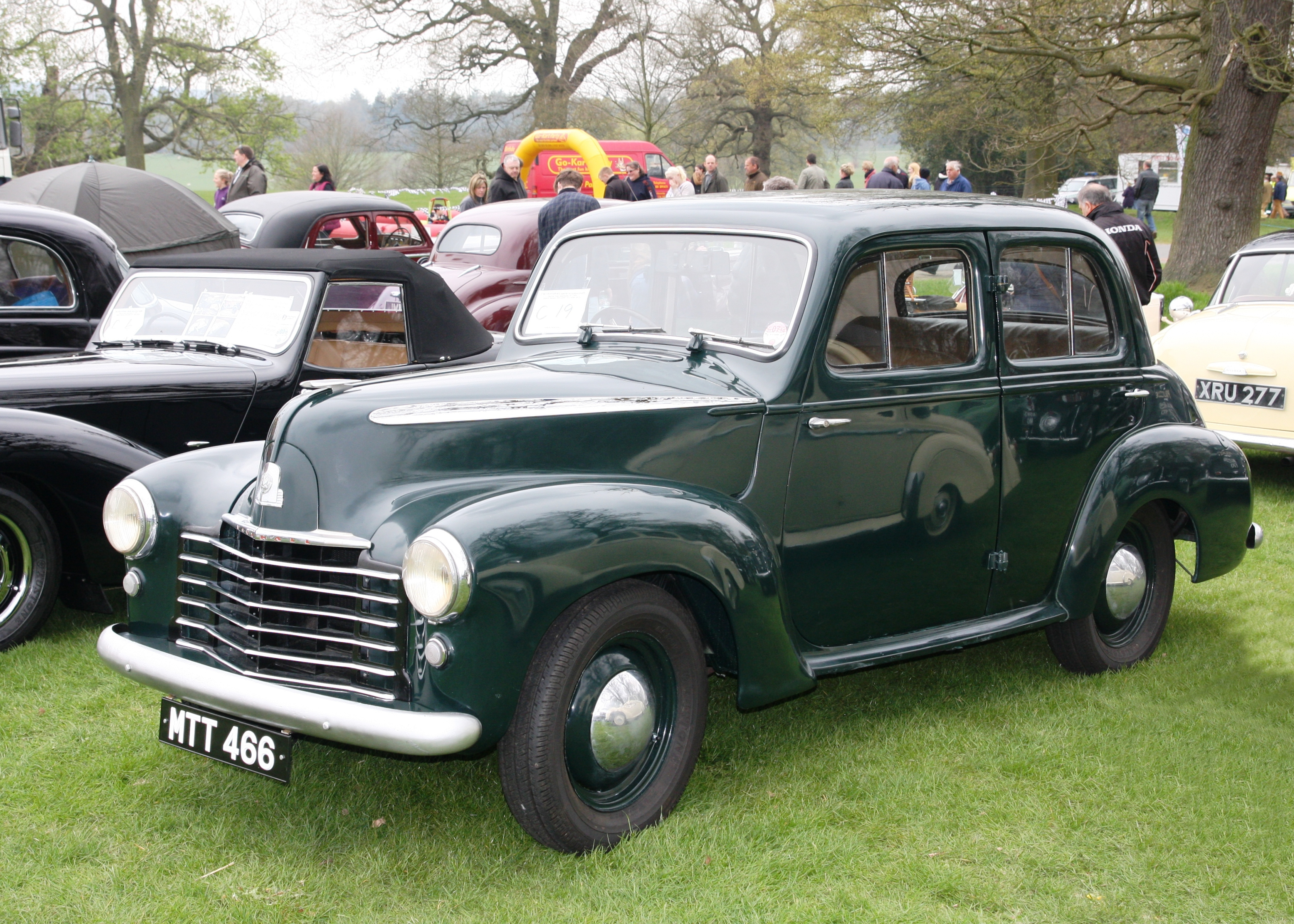 Early Vauxhall Wyvern at Weston Park on Easter Day